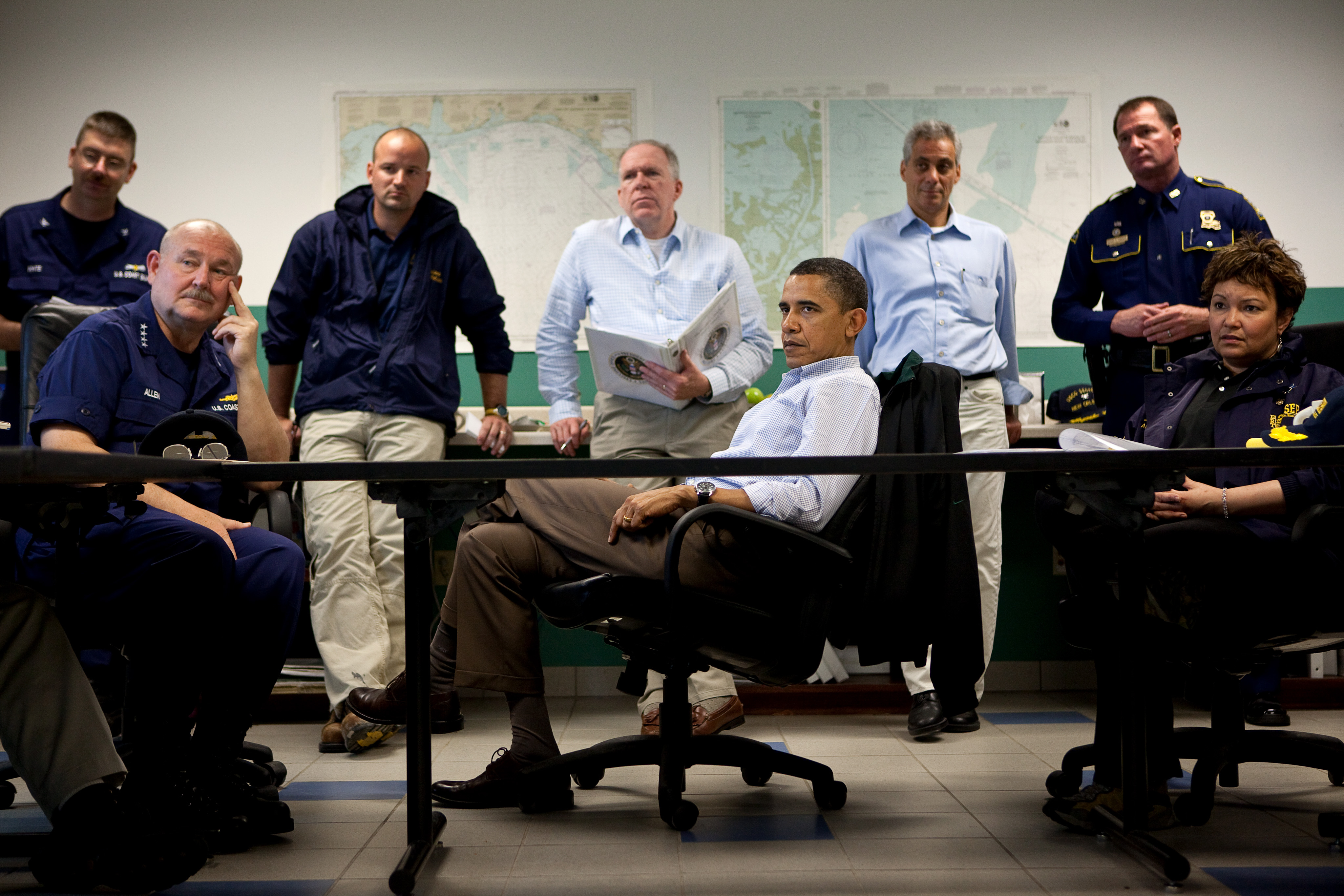 President Barack Obama listens during a briefing about the situation along the Gulf Coast following the BP oil spill, at the Coast Guard Venice Center, in Venice, La., Sunday, May 2, 2010. Pictured, from left, are U.S. Coast Guard Commandant Admiral Thad Allen, John Brennan, assistant to the President for homeland security and counterterrorism, Chief of Staff Rahm Emanuel, and EPA Administrator Lisa Jackson.